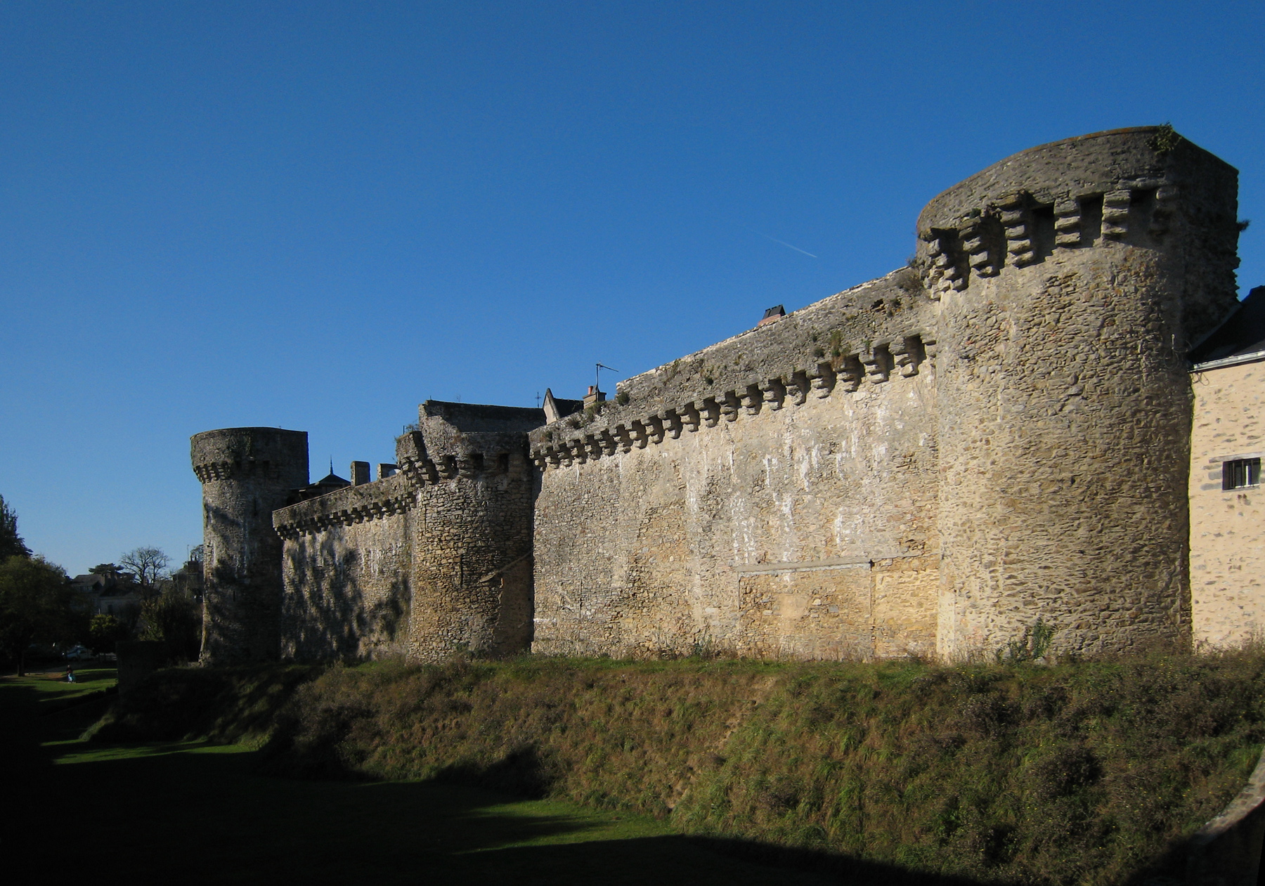 Village of Laval, located on the river Mayenne in the county of Mayenne/France; town - old city wall